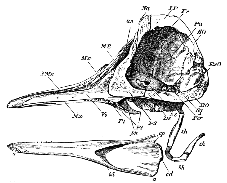 Fig. 185.—A section of a skull of a young Caa'ing Whale (Globicephalus melas). × 1⁄5. a, Angle; an, anterior nares; AS, alisphenoid; bh, basihyal; BO, basioccipital; BS, basispnenoid; cd, condyle; cp, coronoid process; ExO, exoccipital; Fr, frontal; id, inferior dental canal; IP, interparietal; ME, ossified portion of the mesethmoid; Mx, maxilla; Na, nasal; Pa, parietal; Per, periotic; Pl, palatine; PMx, premaxilla; pn, posterior nares; PS, presphenoid; Pt, pterygoid; s, symphysis of mandible; sh, stylohyal; SO, supra-occipital; Sq, squamosal; th, thyrohyal; Vo, vomer. (From Flower's Osteology.)